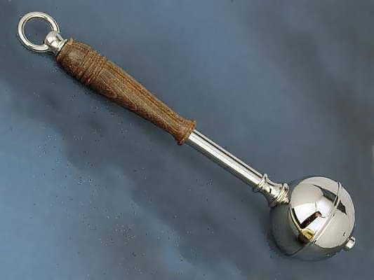 Aspergillum